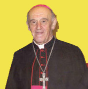 Joseph Mercieca Archbishop Emeritus of Malta